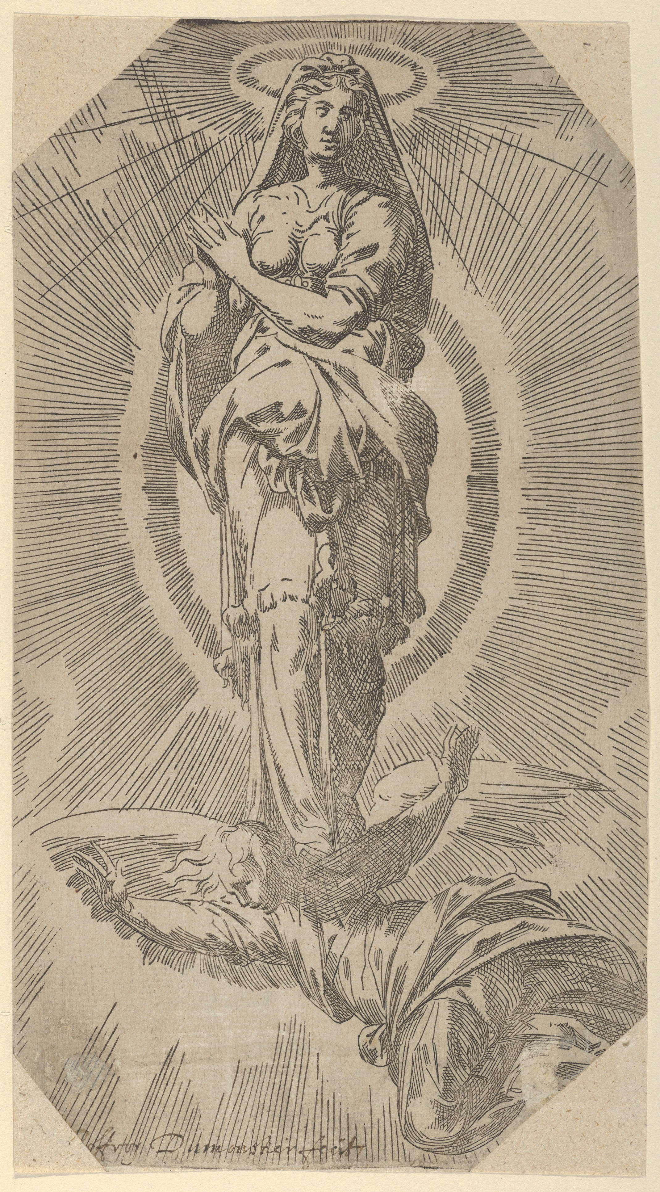 Print; Prints